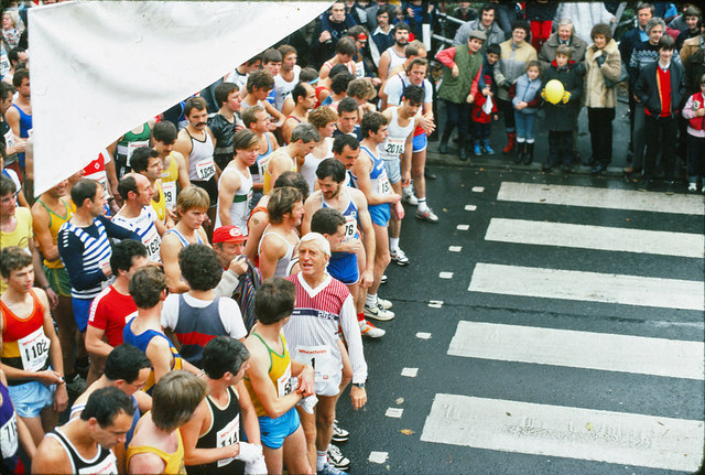 Jimmy Savile at the 1982 Leeds Marathon starting line